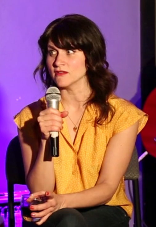 Comedienne Brooke Van Poppelen on the February 2014 live episode of Dale Radio. Highlights from the February 2014 live episode of Dale Radio Host: Dale Seever Music Director: Andrew Bancroft Guests: Sue Smith Scott Rogowsky Brooke Van Poppelen Eliot Glazer Shot at The PIT Underground, New York City Shot and edited by Bill Scurry/AmericanCaesar Enterprises